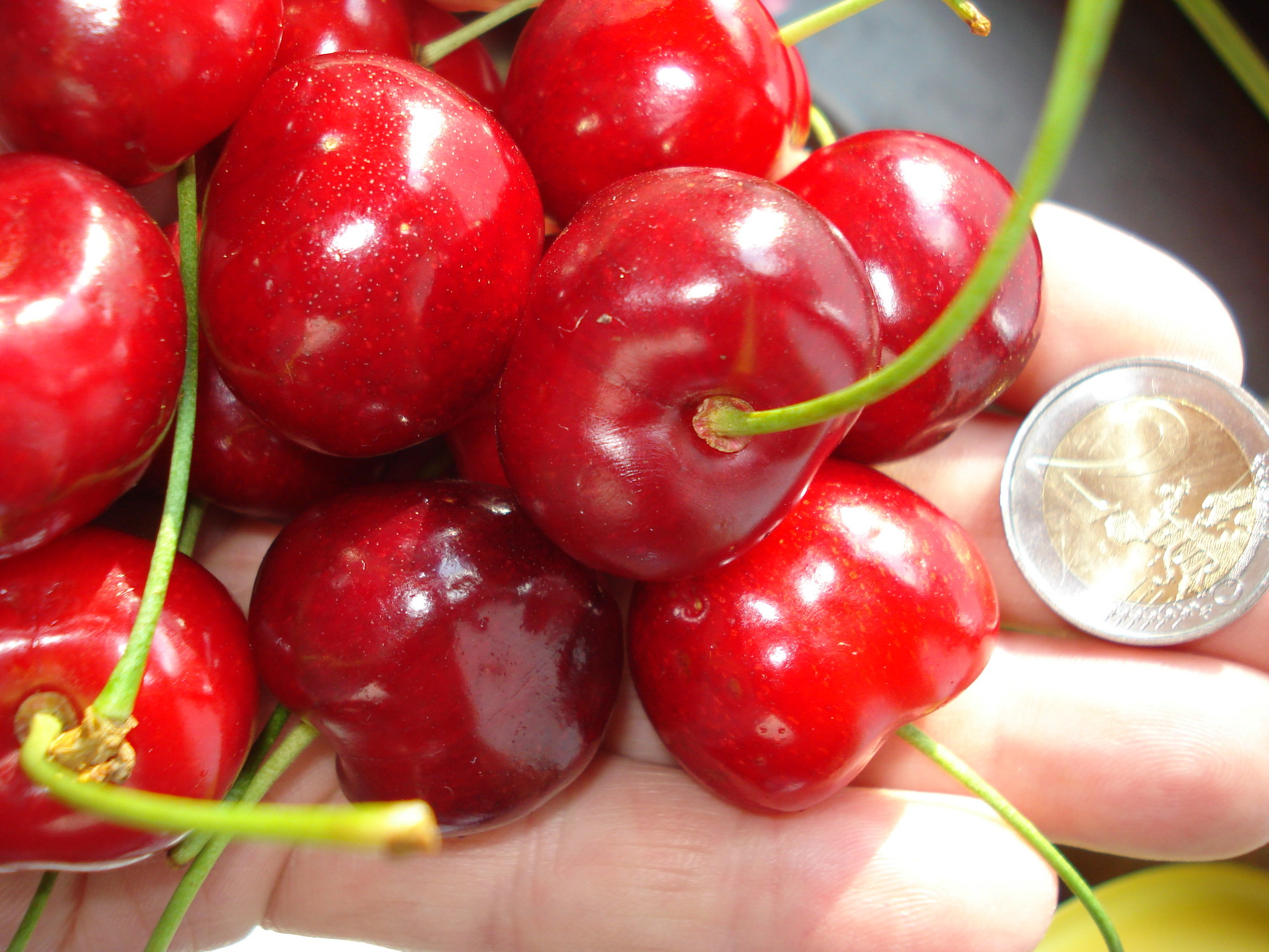 Cherries - Germersdorfer variety (grown in Međimurje County, northern Croatia)